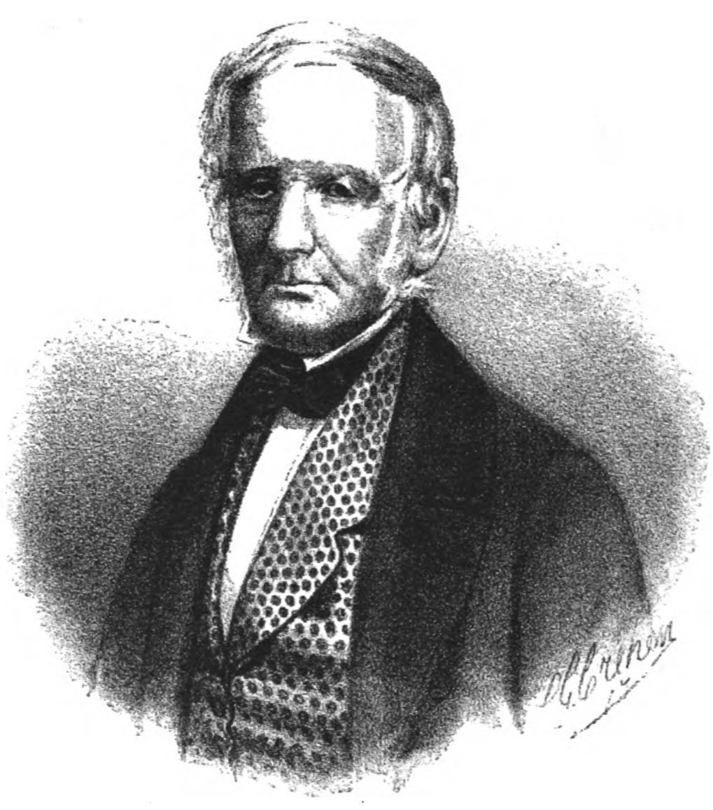 Portrait of New York merchant Stephen Whitney (1776-1860)